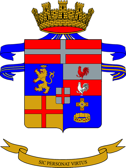 Coat of Arms of the 7° Cavalry Regiment; Italian Army.